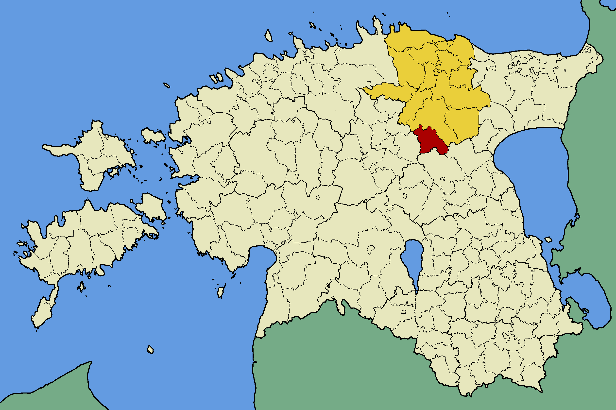 Map of Estonia with borders of municipalities (parishes). Lääne-Viru county and Rakke municipality emphasized.